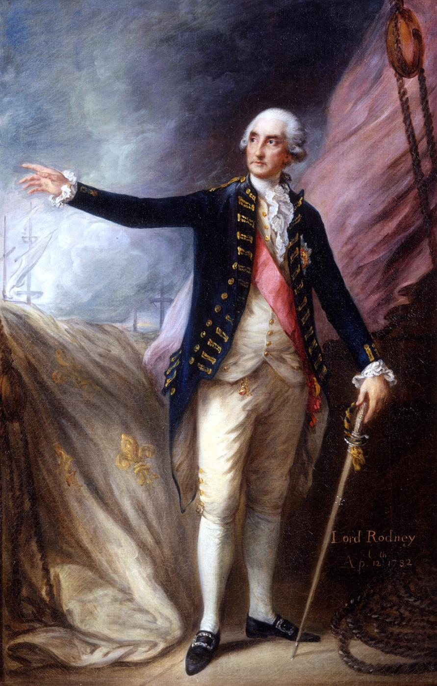 Behind is the French fleur de lys naval ensign from the captured Ville De Paris